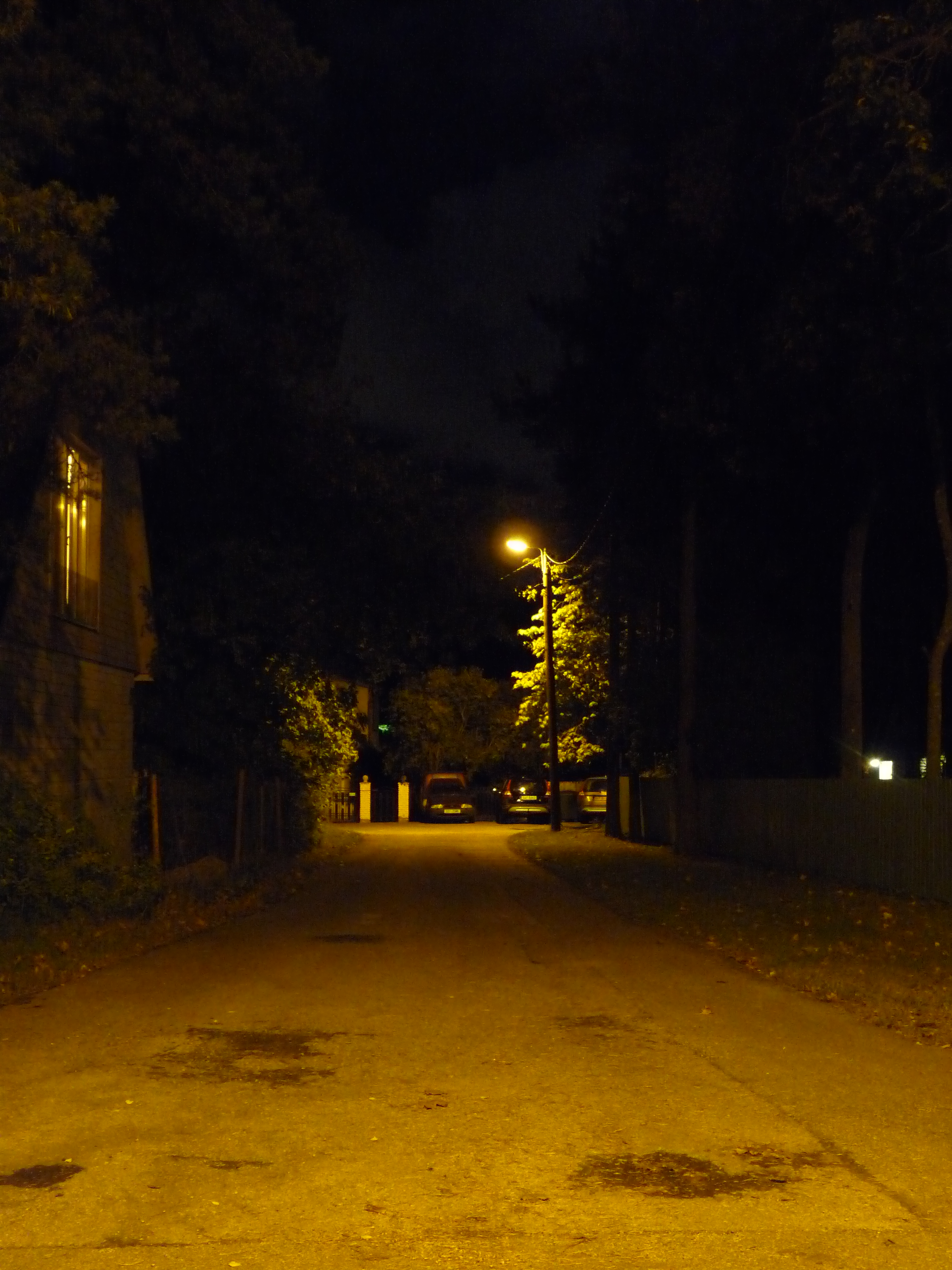 Ratta street in Tallinn, Estonia